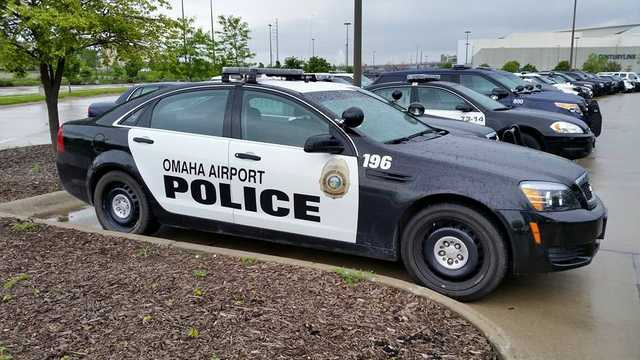 An Omaha Airport Police Department Chevrolet Caprice parked near the Century Link Center (currently the CHI Health Center) in Omaha, Nebraska during firefighter and police appreciation day.